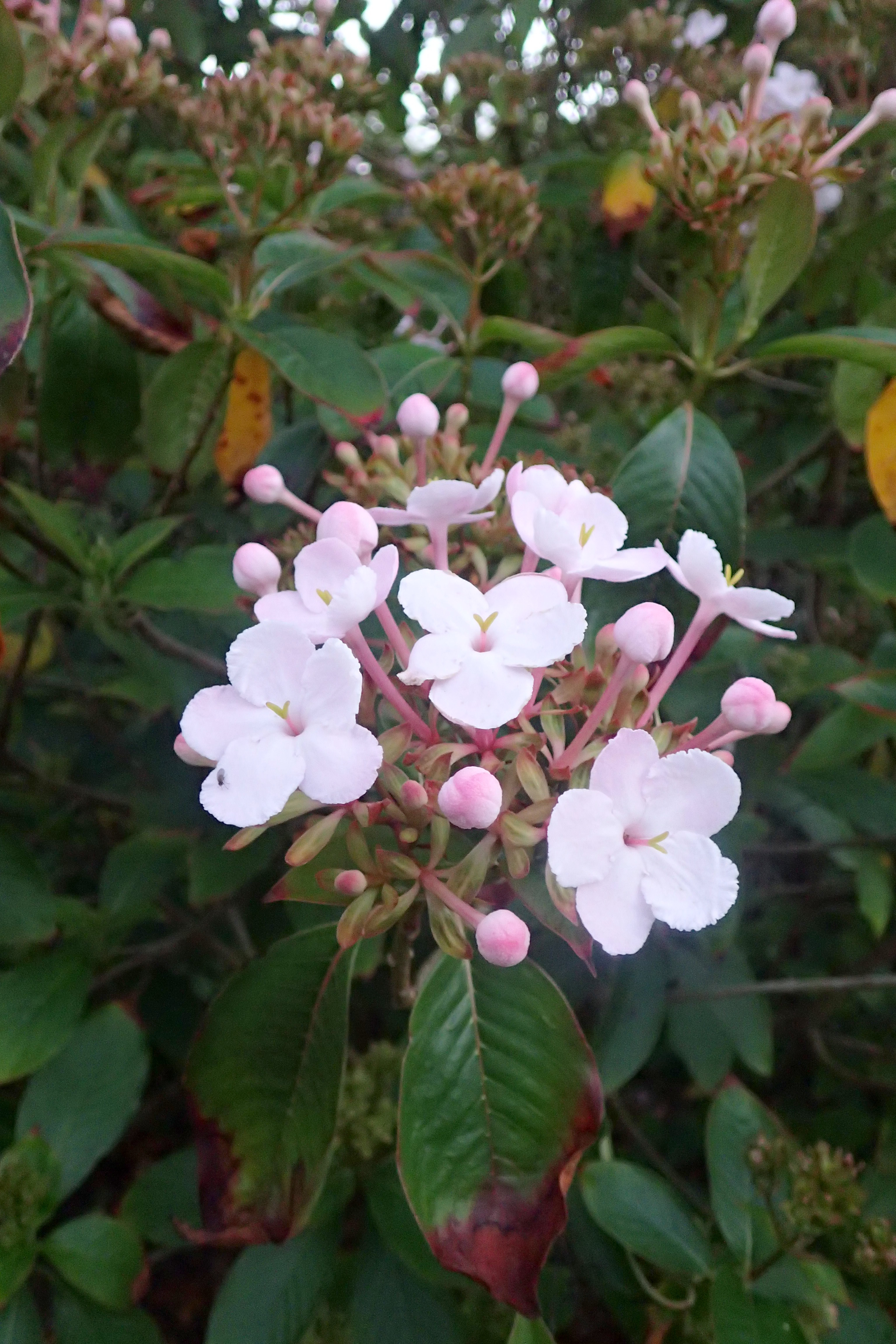 Luculia pinceana in the San Francisco Botanical Garden